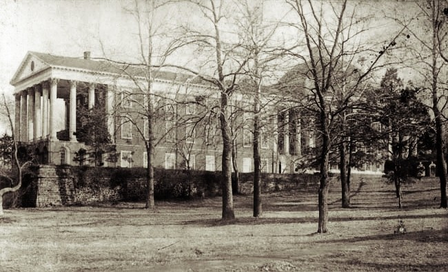 University of Virginia: The Rotunda Annex "Title: Rotunda Annex, West Face Comments: Notation on back of one photograph, "Side view of main building and Rotunda, taken last spring." 3 b&w photographs. Image Filename: prints00083 Accession Number: RG-30/1/1.993 Copy Negative Number: 35-11-J" (laut Quelle